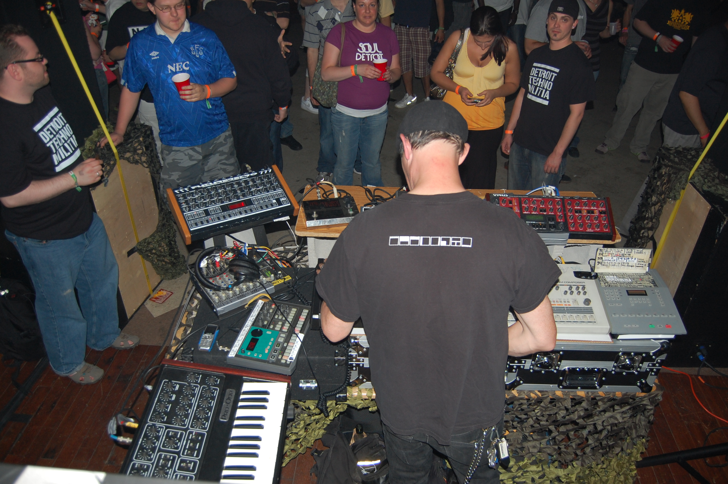 Shawn Rudiman, Festival and the DTM FREE After Party, Movement: DEMF 2009 - Day 1 SCI Pro One Korg Electribe S (ES-1) Mackie 1202 (12ch Line/Mic Mixer) Future Retro 777 E-H Memory Man Korg Electribe R (ER-1) not in photo Roland TR-808 not in photo Roland TR-909 Access Virus Rack Alesis MMT-8